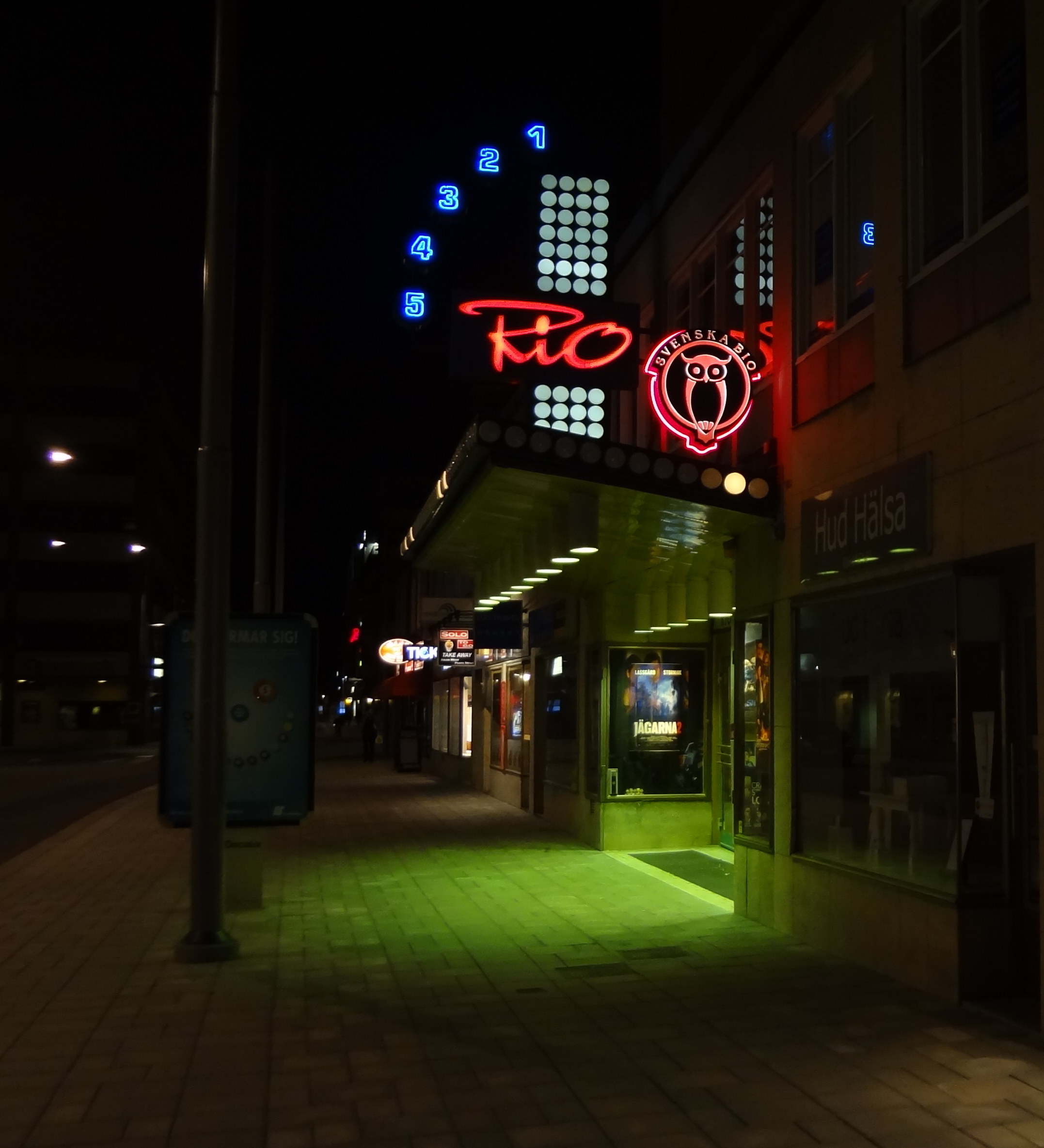 Cinema in Eskilstuna, Sweden.